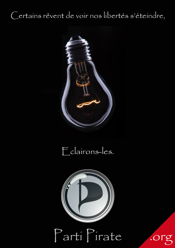 Pirate Party poster (France) by Sanpytt